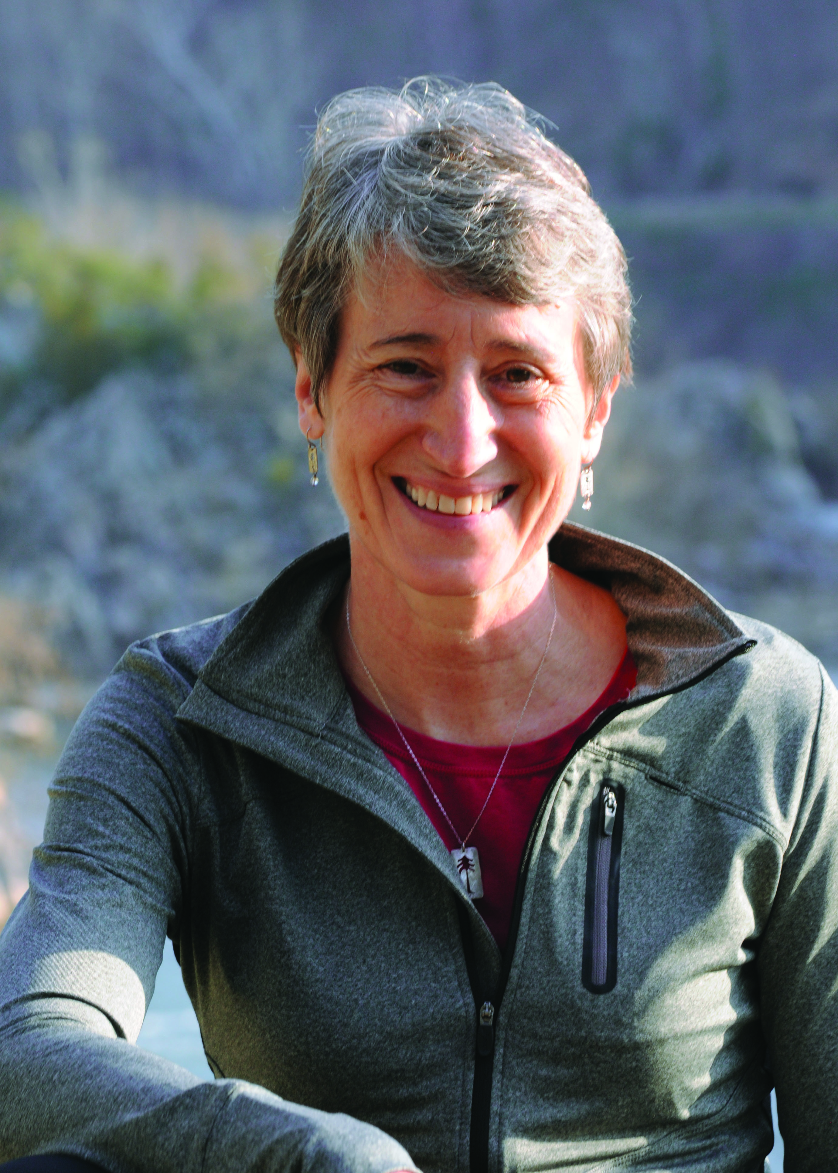 Official portrait of Secretary of Interior Sally Jewell.